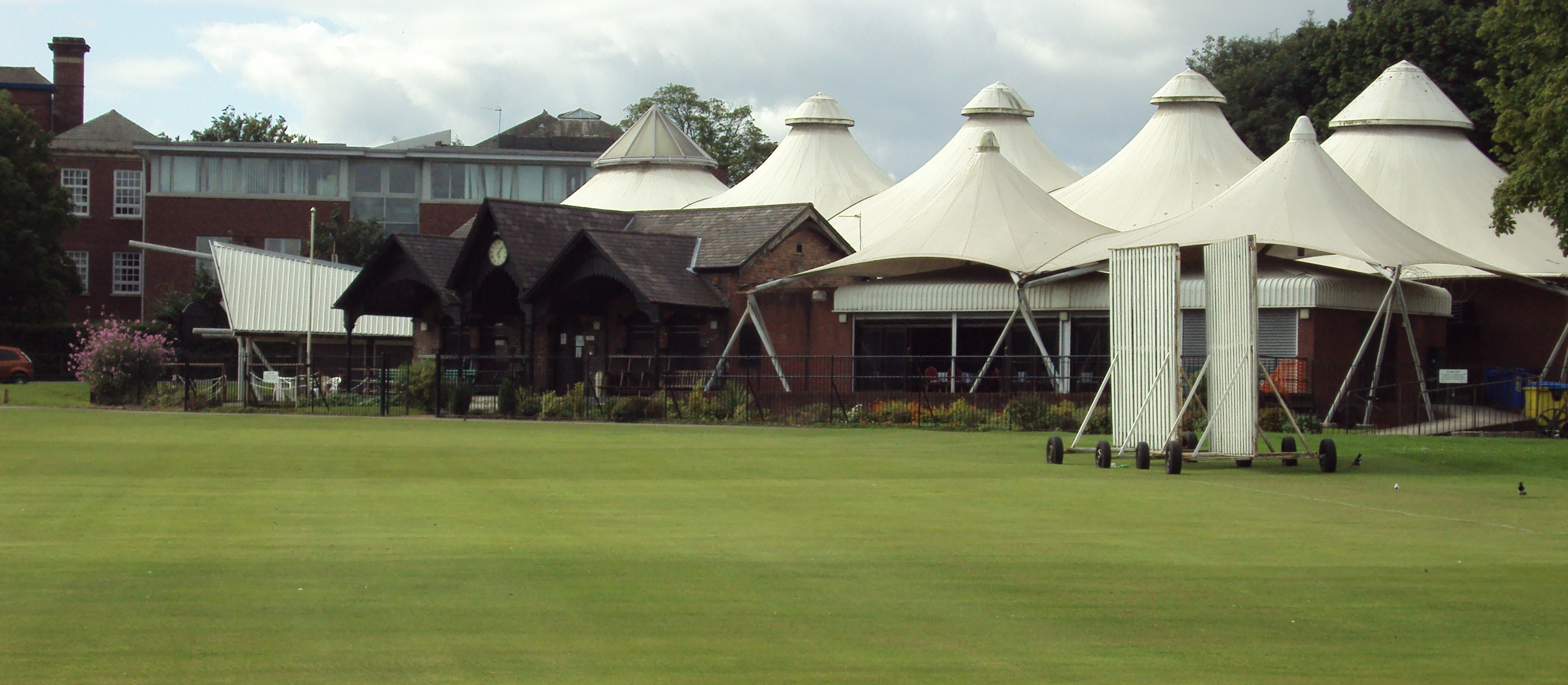 Birkenhead Park Cricket Club Pavilion